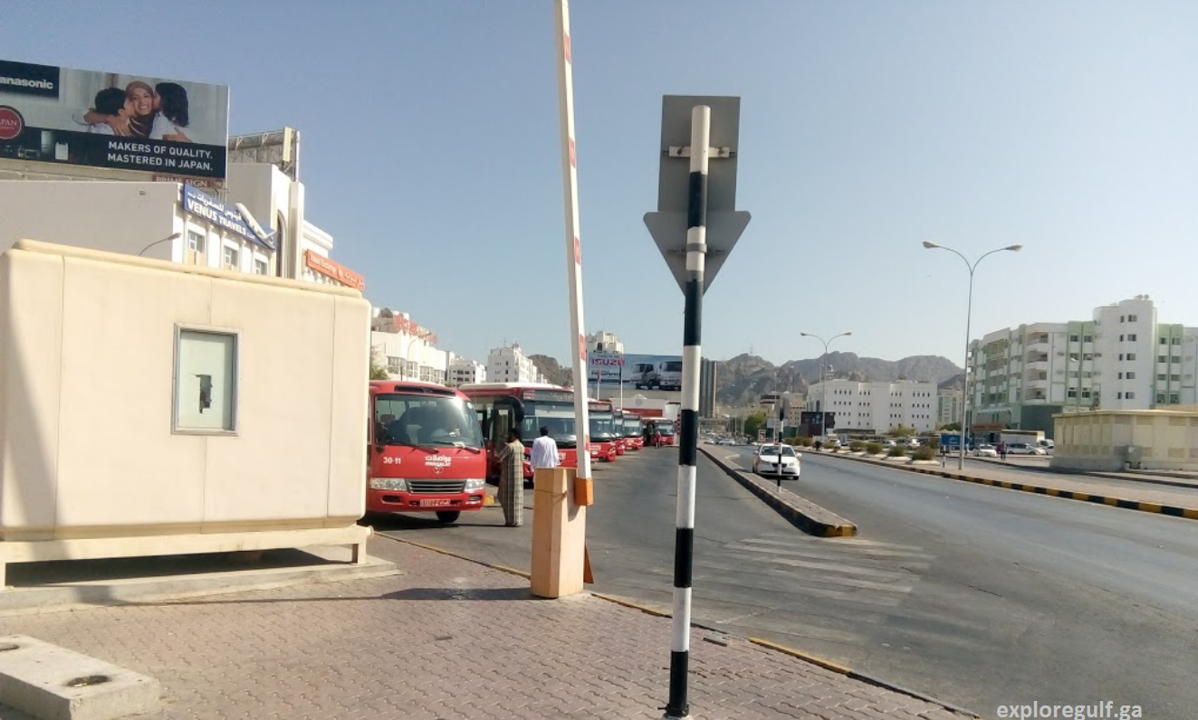 the main hub bus station of Muscat City.. the view from the nearest signal.